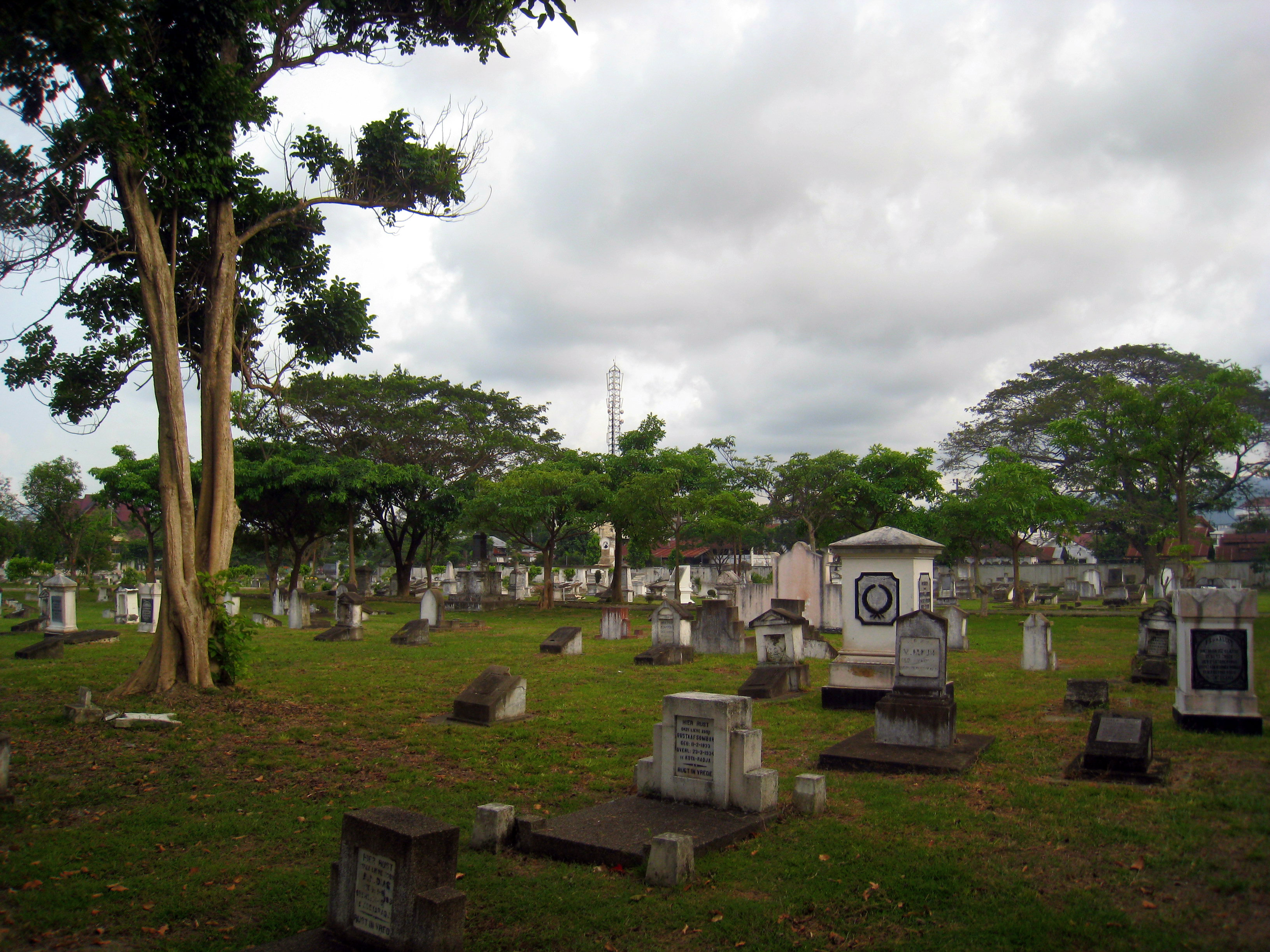 Kerkoff Peucut, the Dutch military cemetery in Banda Aceh.